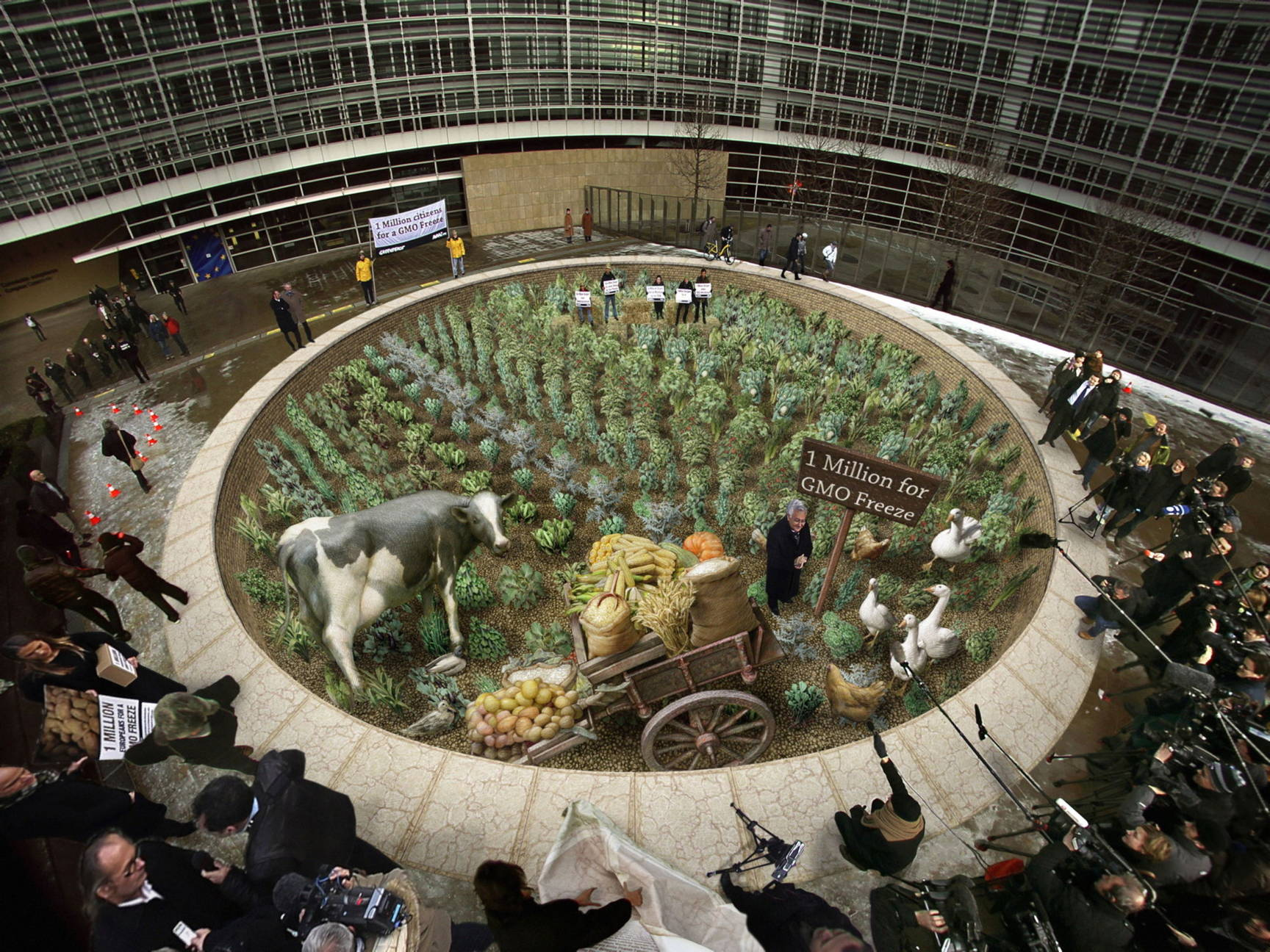 In 2010, Greenpeace called for a ban of genetically modified crops by presenting the European Union members in Brussels with one million signatures on a petition. Kurt Wenner created a world-record breaking 3D image for the event.